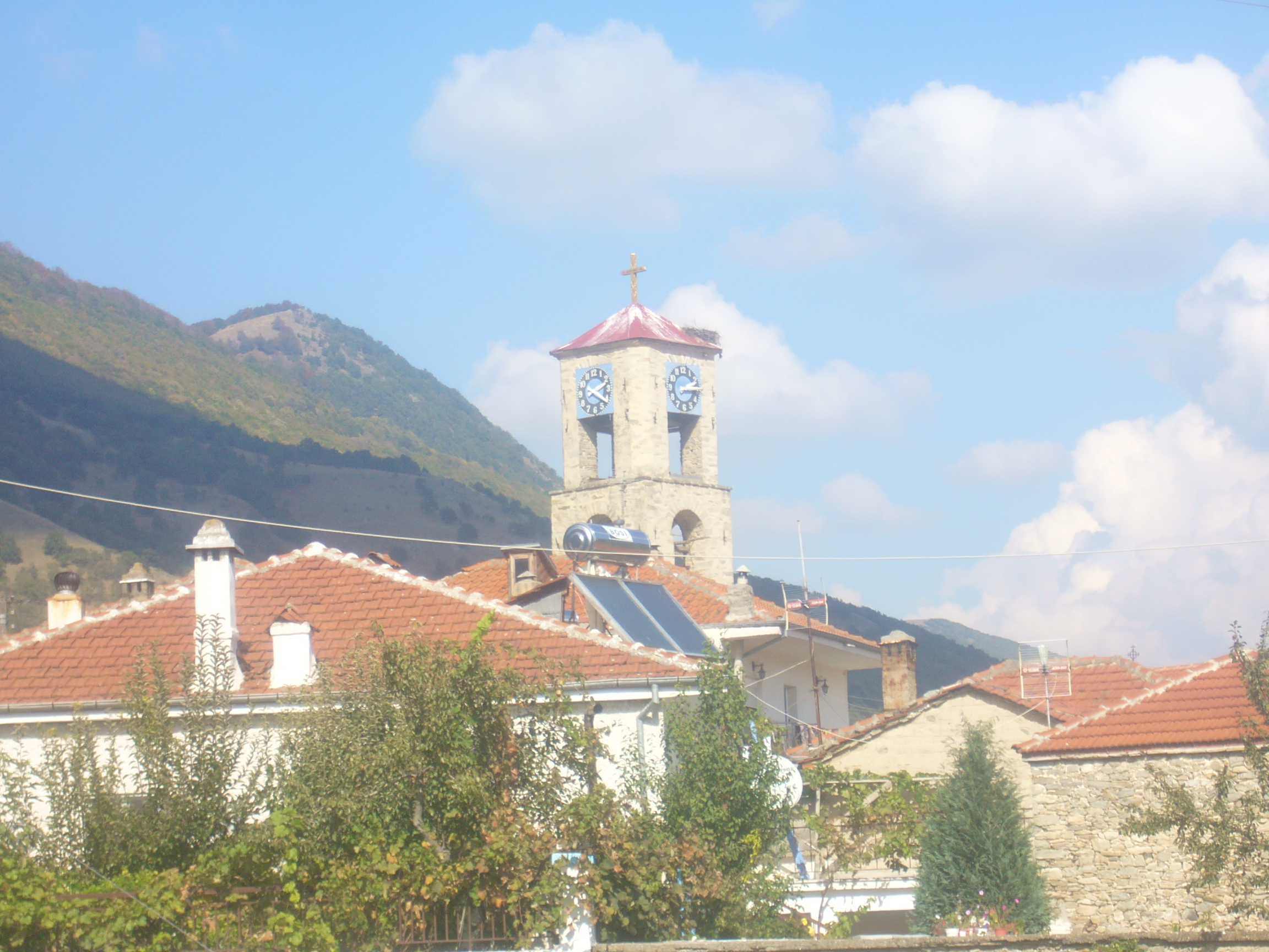 Sklithro village, Florina Prefecture, Region of Westmacedonia, Greece.